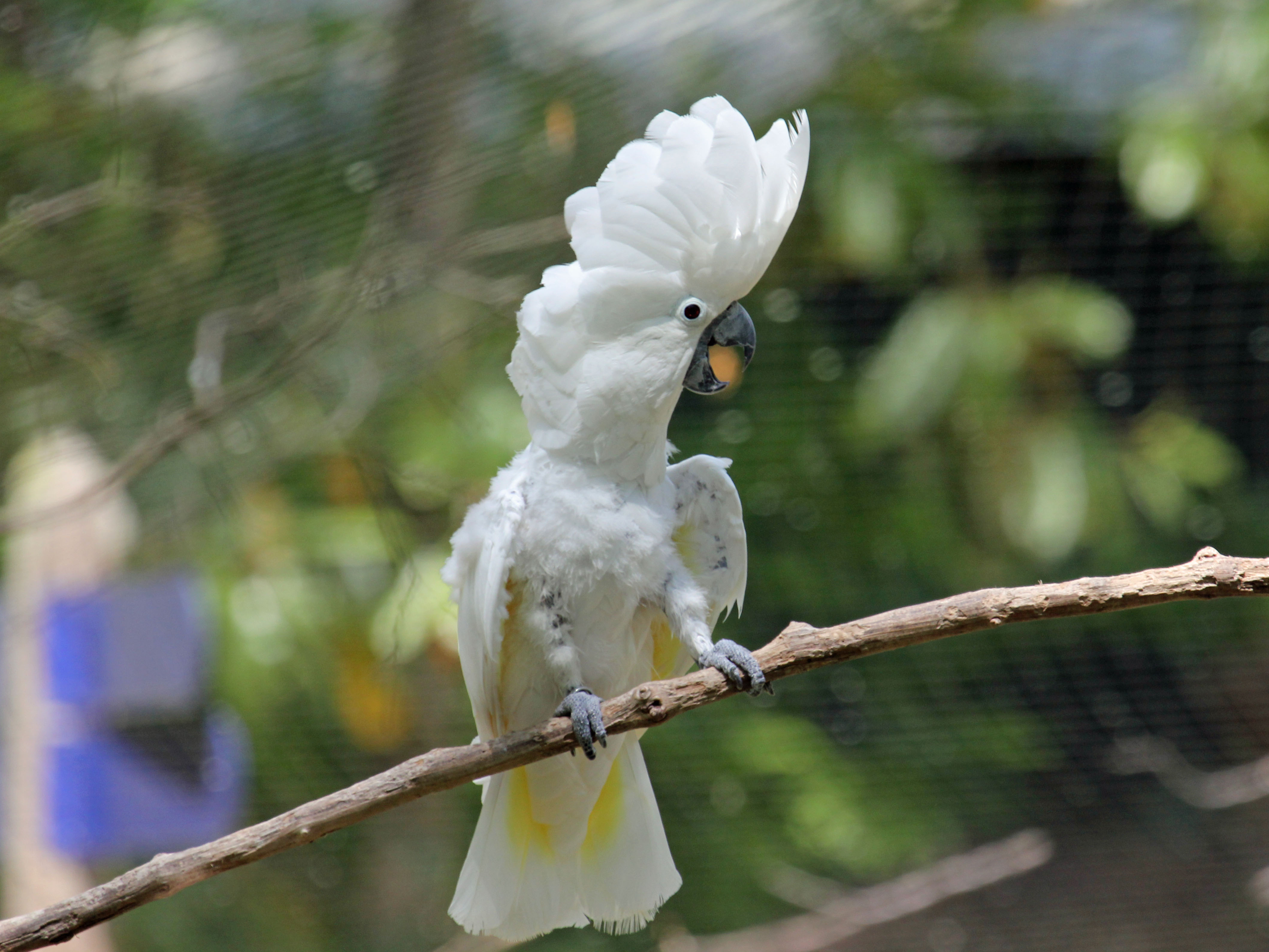 White Cockatoo, also Umbrella Cockatoo, (Cacatua alba) - Sylvan Heights Waterfowl Park, Scotland Neck, North Carolina